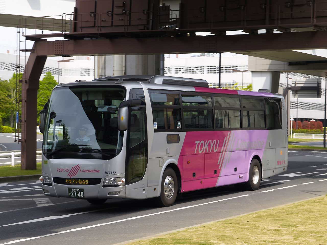 Fleet of Tokyu Bus, operated at between Tama-Plaza Station, Kohoku New Town, Yokohama and Narita International Airport. Model: Mitsubishi Fuso Aero Ace BKG-MS96JP License plate: KNY200 KA2740 Place: Narita International Airport, Chiba Japan